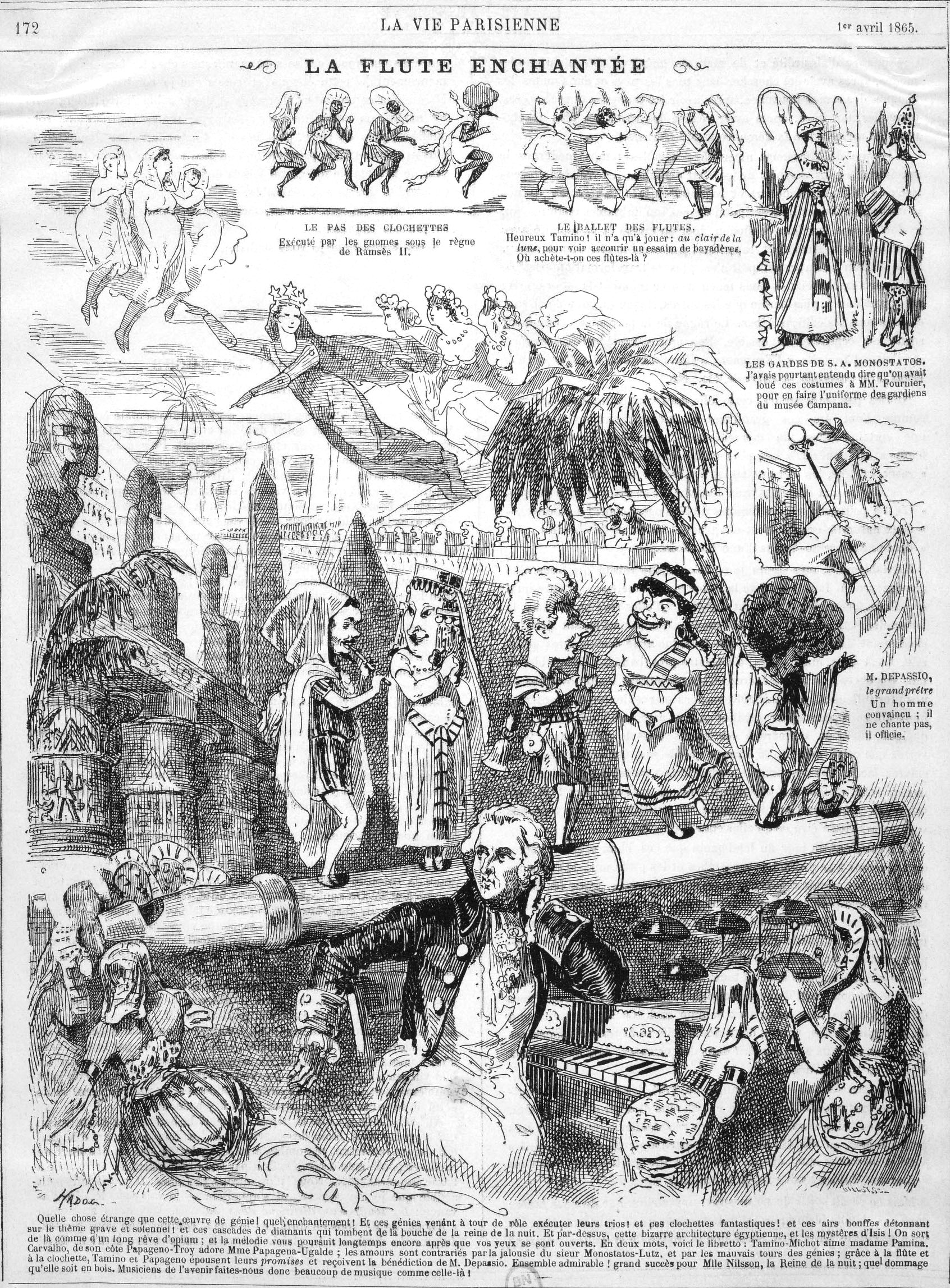 Press illustration for the opera La flûte enchantée, a French adaption of Mozart's Die Zauberflöte first produced at the Théâtre Lyrique in Paris on 23 February 1865.